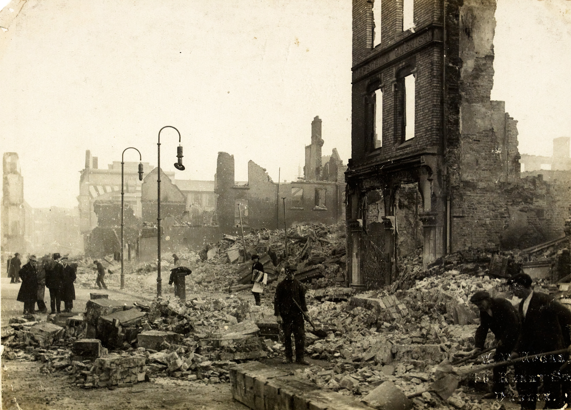 St Patrick's Street in Cork, Ireland on (or around) 14 December 1920. The image captures the aftermath of what's known as the Burning of Cork. This event occurred on 11-12 December 1920 during the Irish War of Independence. The primary subject are destroyed buildings in the area from Cook Street to Robert street to Winthrop Street (off Patrick street)in Cork. To the right foreground are workers in clean-up efforts. The prominent building facade (right/middle-ground) has visible stonework signage which reads: Pharmaceutical & Dispensing Chemist. This building was Sunner's chemist shop, #31 Patrick Street. Immediately to its left (behind the arched lamps) was where #29/30 Patrick Street stood. This was the Munster Arcade. Photographer: W.D. Hogan Date: Circa Tuesday, 14 December 1920. NLI Ref.: HOGW 153